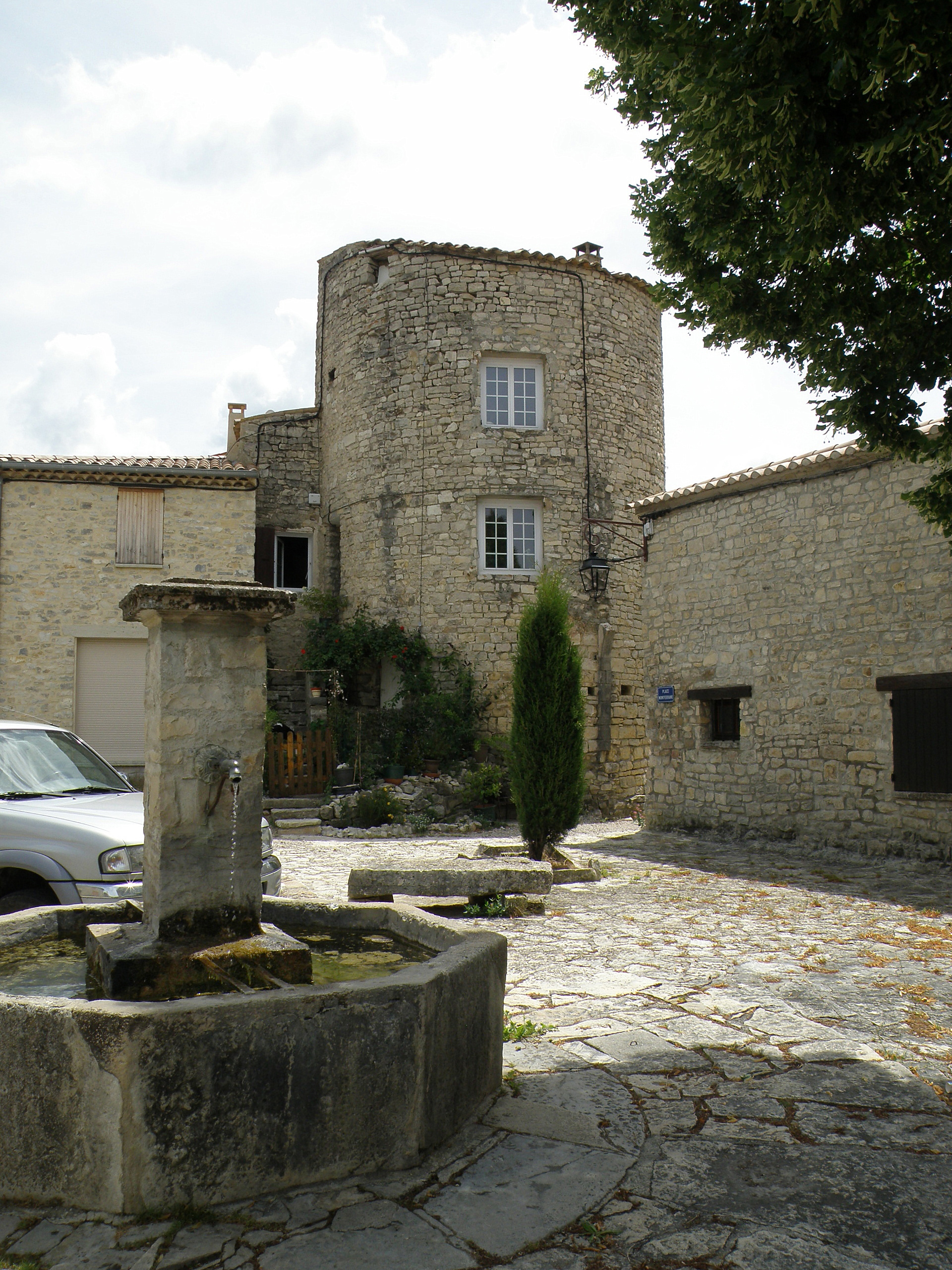 Saint-Auban-sur-l'Ouvèze (comm. de la Drôme, France). Aspect du vieux bourg, avec au fond un vestige du château.